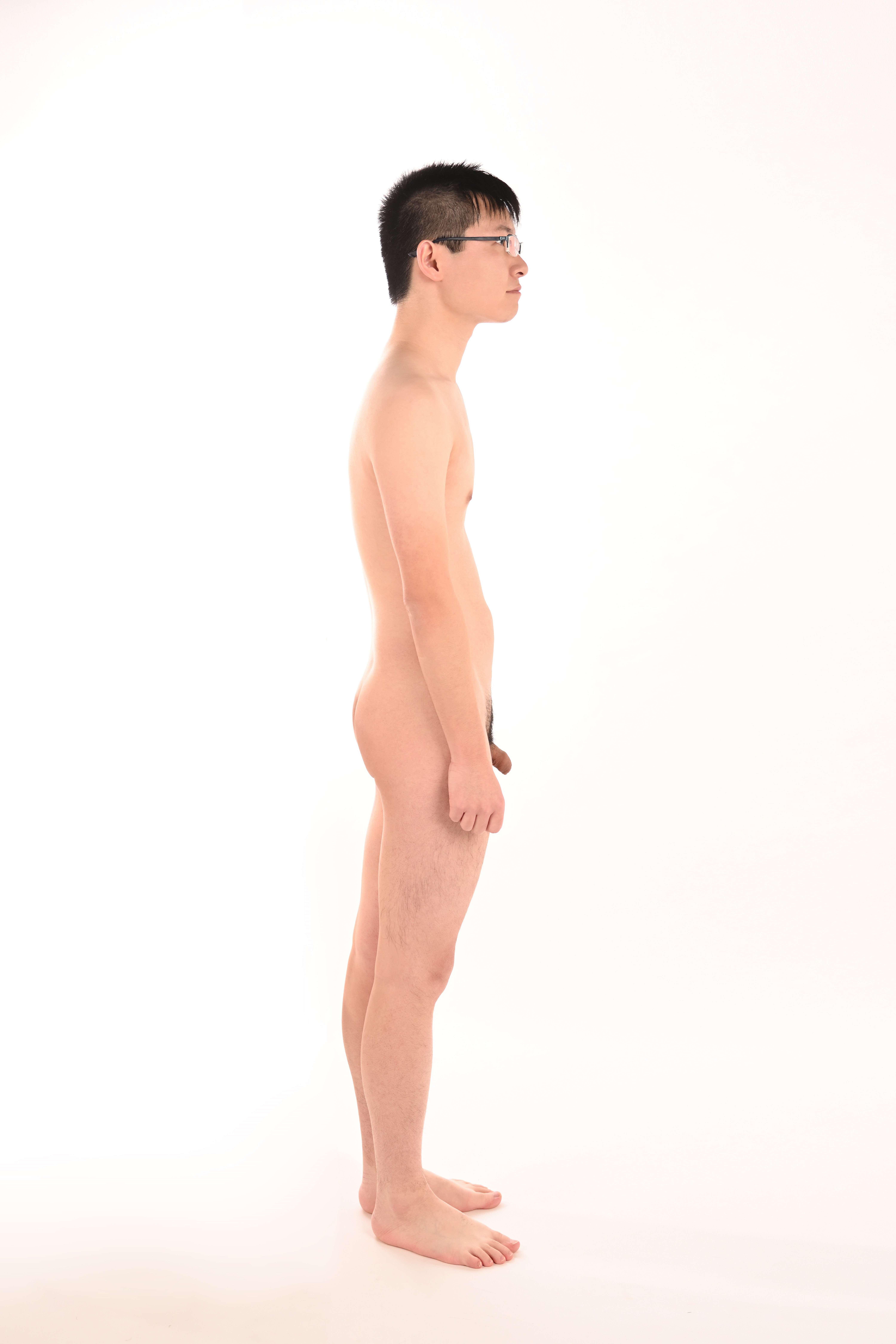 A young male's side profile